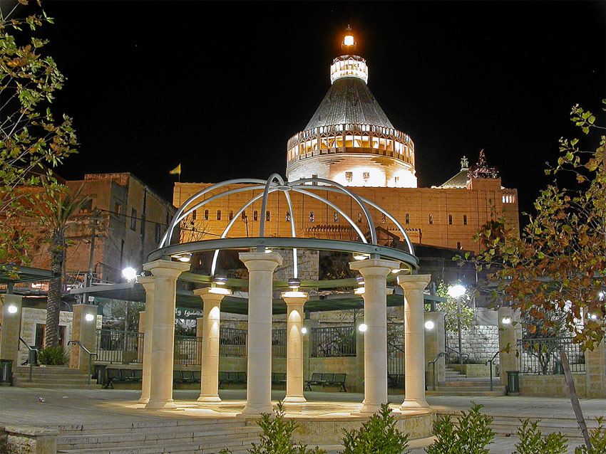 Nazareth The magical city - the basilica of annunciation